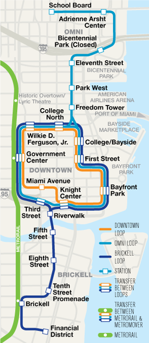 map of miami metromover